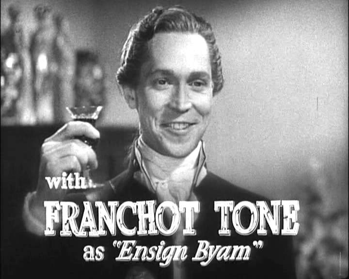 Cropped screenshot of Franchot Tone from the trailer for the film Mutiny on the Bounty.